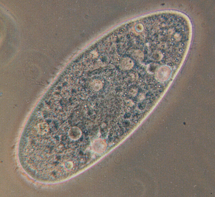 Paramecium aurelia. Optical microscope. Paramecium aurelia, the best known of all ciliates. The bubbles throughout the cell are vacuoles. The entire surface is covered in cilia, which are blurred by their rapid movement.